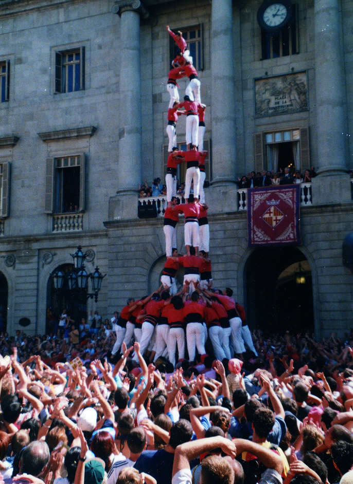 First 3 de 9 with folre completed by the Castellers de Barcelona, during la Mercè 2001